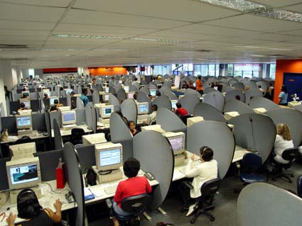 A call center in a hispanic country.